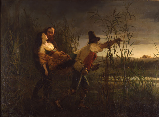 Giuseppe Garibaldi and Leggero carry a dying Anita